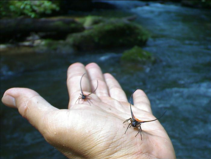 Unique and rare spider, with unknown species genus name from Forbidden forest of the upper Cibeet.